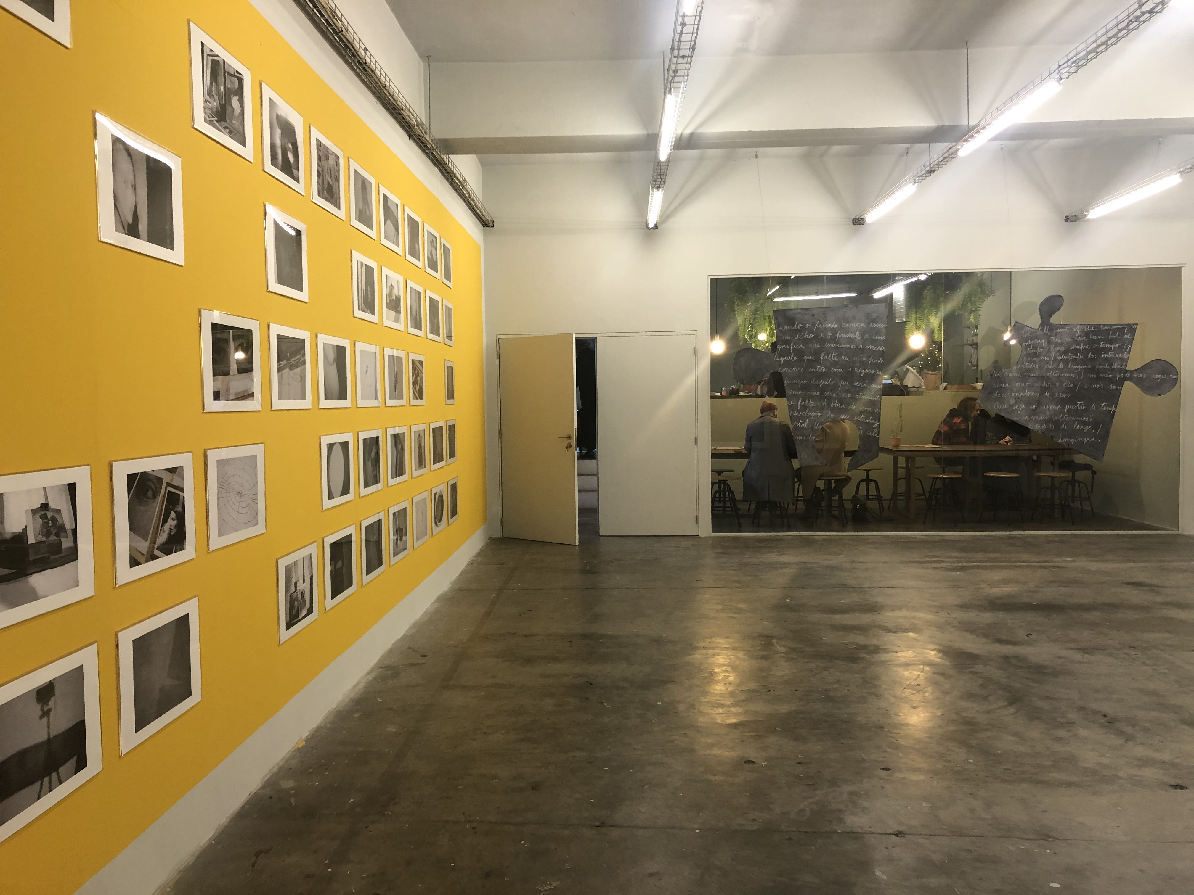 View of José Barrias show curated by Paula Parente Pinto at Centro para os Assuntos da Arte e da Arquitectura, Guimarães, December 2019.